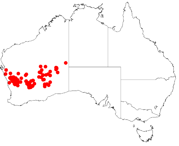 Acacia sibina Occurrence data from Australasia Virtual Herbarium downloaded from on 8 December 2018